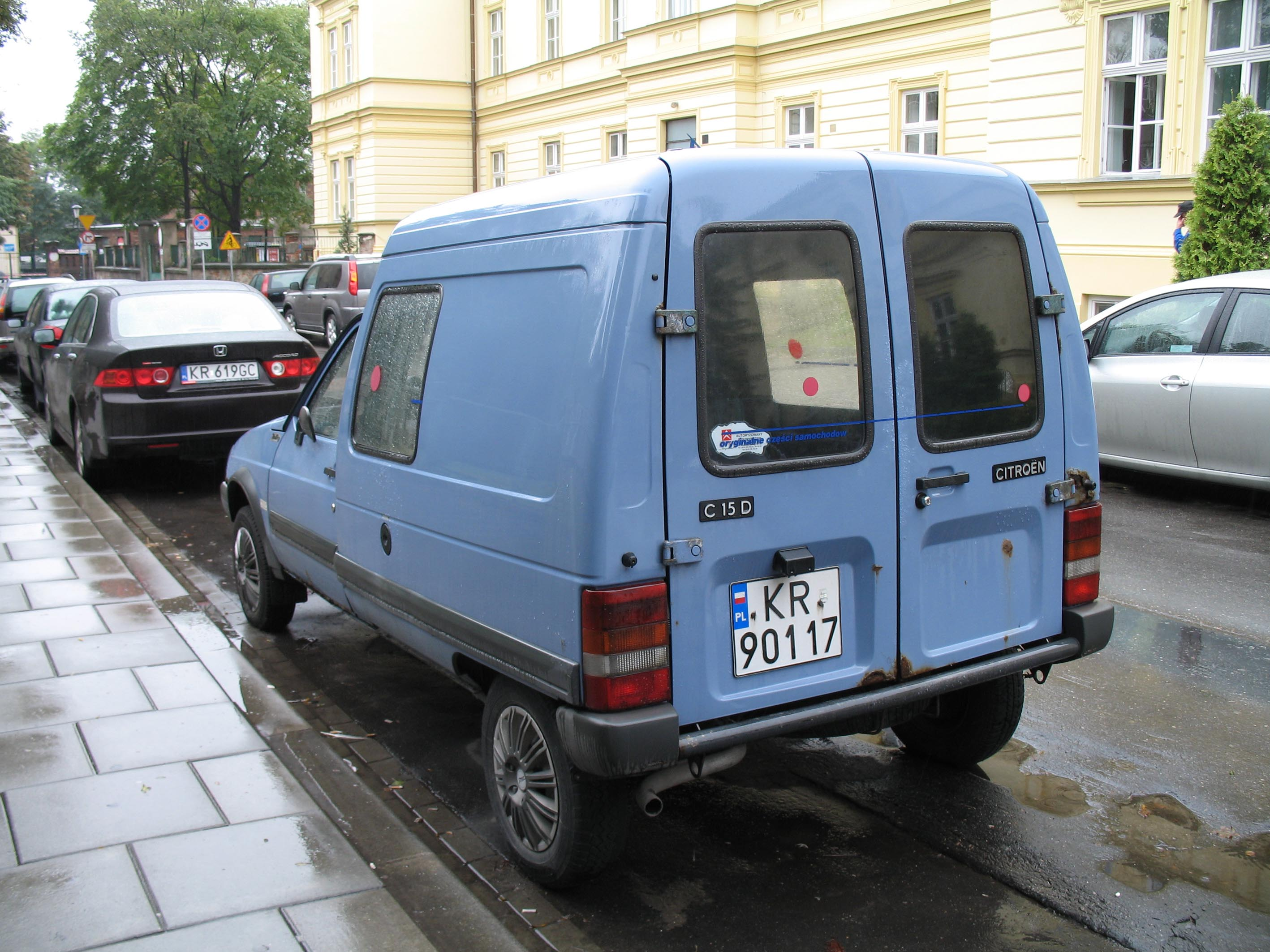 Citroën C15D (rear) in Kraków, Poland.